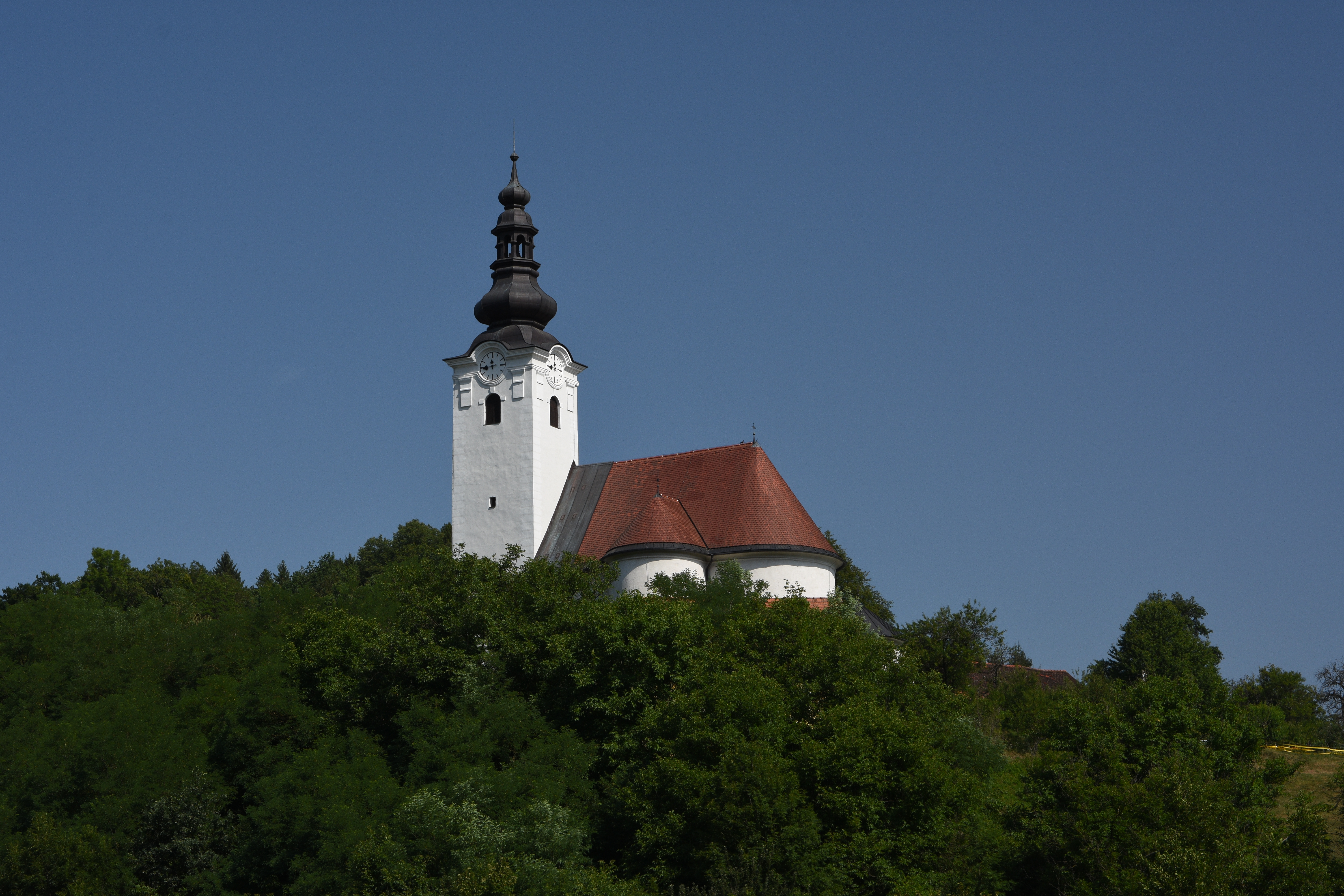 Church Kungota municipality